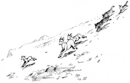 "The lamb made it!" - Pack of wolves hunting.